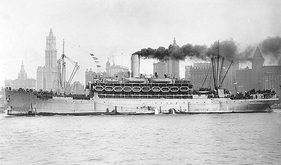 USS Santa Ana (ID-2869) off New York City with her decks crowded with troops she has brought home from Europe, circa March-July 1919.